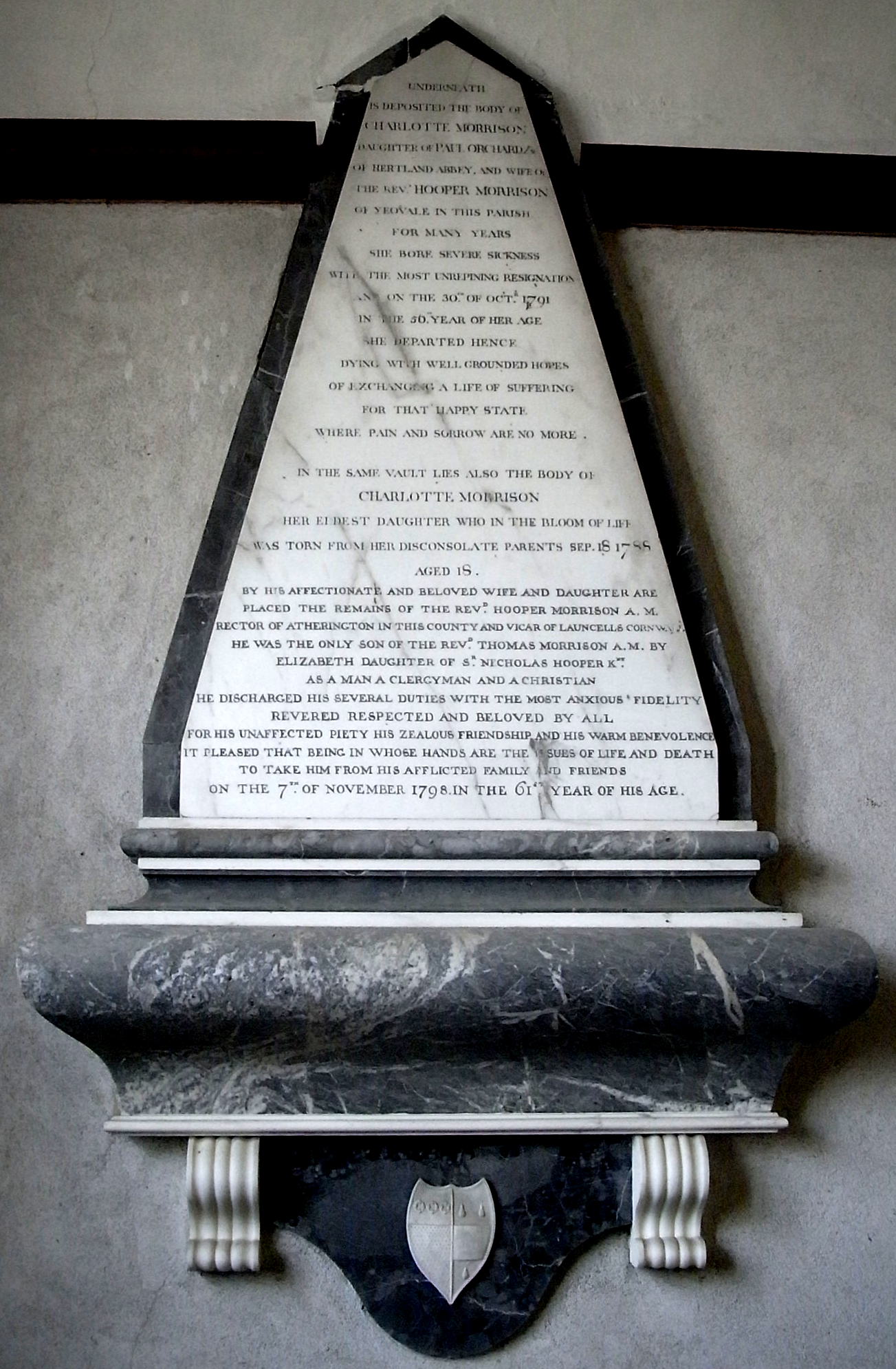 Mural monument to Charlotte Orchard (1735-1791), wife of Rev. Hooper Morrison (1737-1798) of Yeo Vale, Alwington, Devon. Yeo Vale Chapel, Alwington Church. Inscribed as follows: "Underneath is deposited the body of Charlotte Morrison daughter of Paul Orchard Esq. of Hertland (sic) Abbey and wife of the Rev. Hooper Morrison of Yeo Vale in this parish for many years. She bore severe sickness with the most unrepining resignation and on the 30th of Octr 1791 in the 56th year of her age she departed hence dying with well grounded hopes of exchanging a life of suffering for that happy state where pain and sorrow are no more. In the same vault lies also the body of Charlotte Morrison her eldest daughter who in the bloom of life was torn from her disconsolate parents Sep. 18 1788 aged 18. By his affectionate and beloved wife and daughter are placed the remains of the Revd Hooper Morrison A.M., rector of Alwington in this county and Vicar of Launcells, Cornwall. He was the only son of the Revd Thomas Morrison A.M., by Elizabeth daughter of Sr Nicholas Hooper Knt. As a man, a clergyman and a Christian he discharged his several duties with the most anxious fidelity. Revered, respected and beloved by all for his unaffected piety, his zealous friendship and his warm benevolence, it pleased that Being in whose hands are the (is)sues of life and death to take him from his afflicted family and friends on the 7th November 1798 in the 61st year of his age"